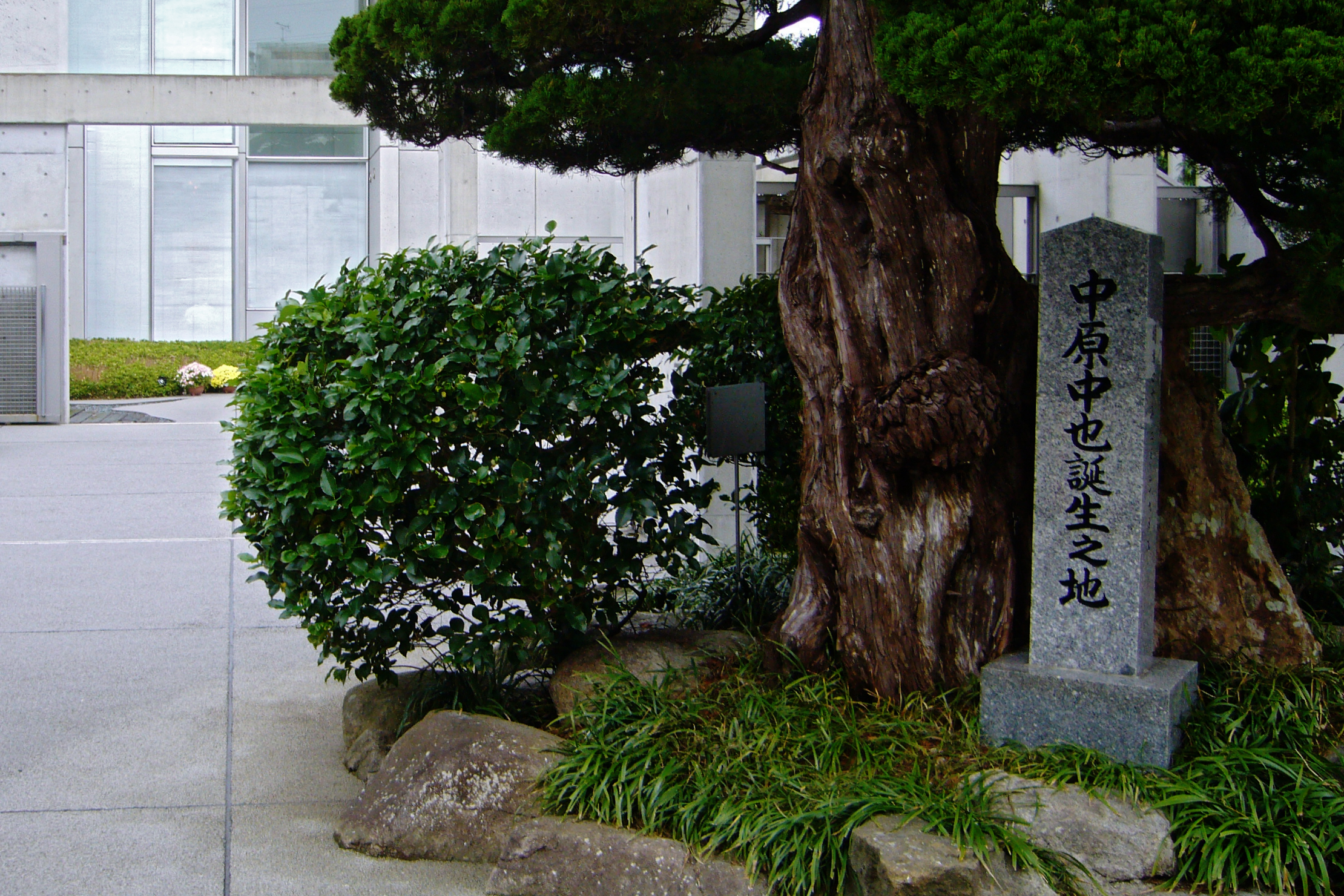 Nakahara Chuya Memorial Hall, Yamaguchi, Yamaguchi precture, Japan